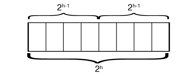 Precalculation